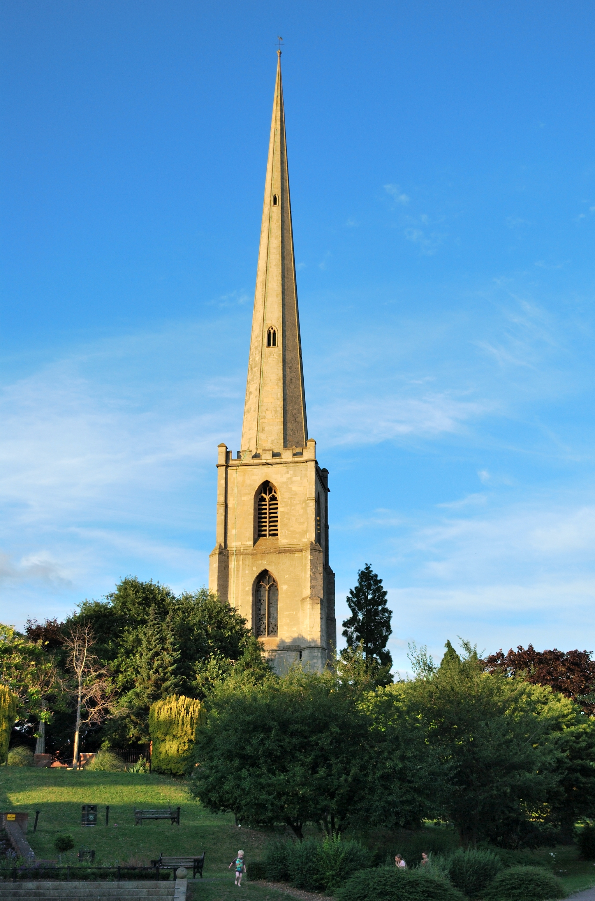 The "Glover's Needle": the spire of St Andrew's parish church, Worcester, England